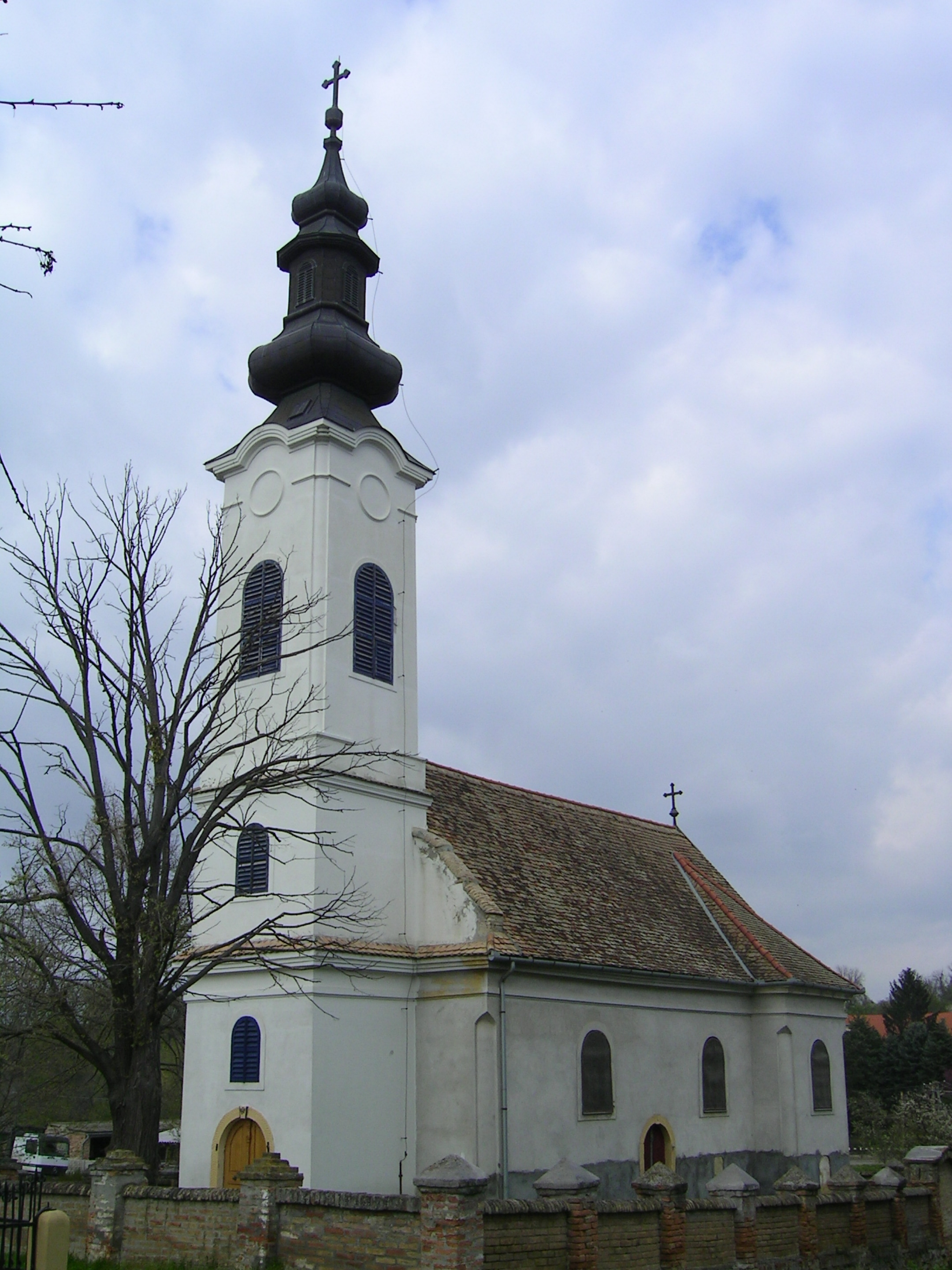 Orthodox church in Somberek, Hungary